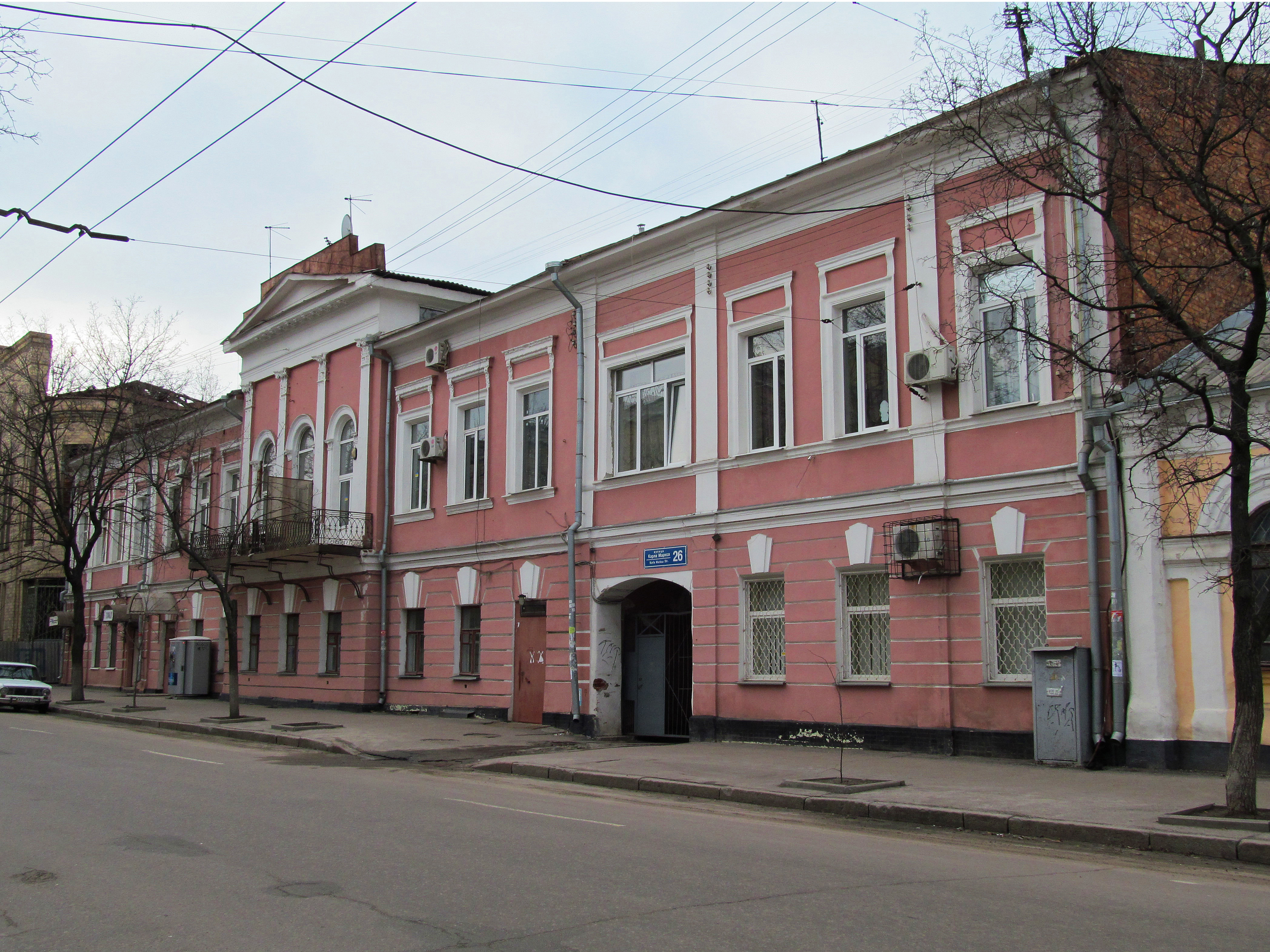 Blagovishchenska Street, 26, Kharkiv, Ukraine. City mansion.